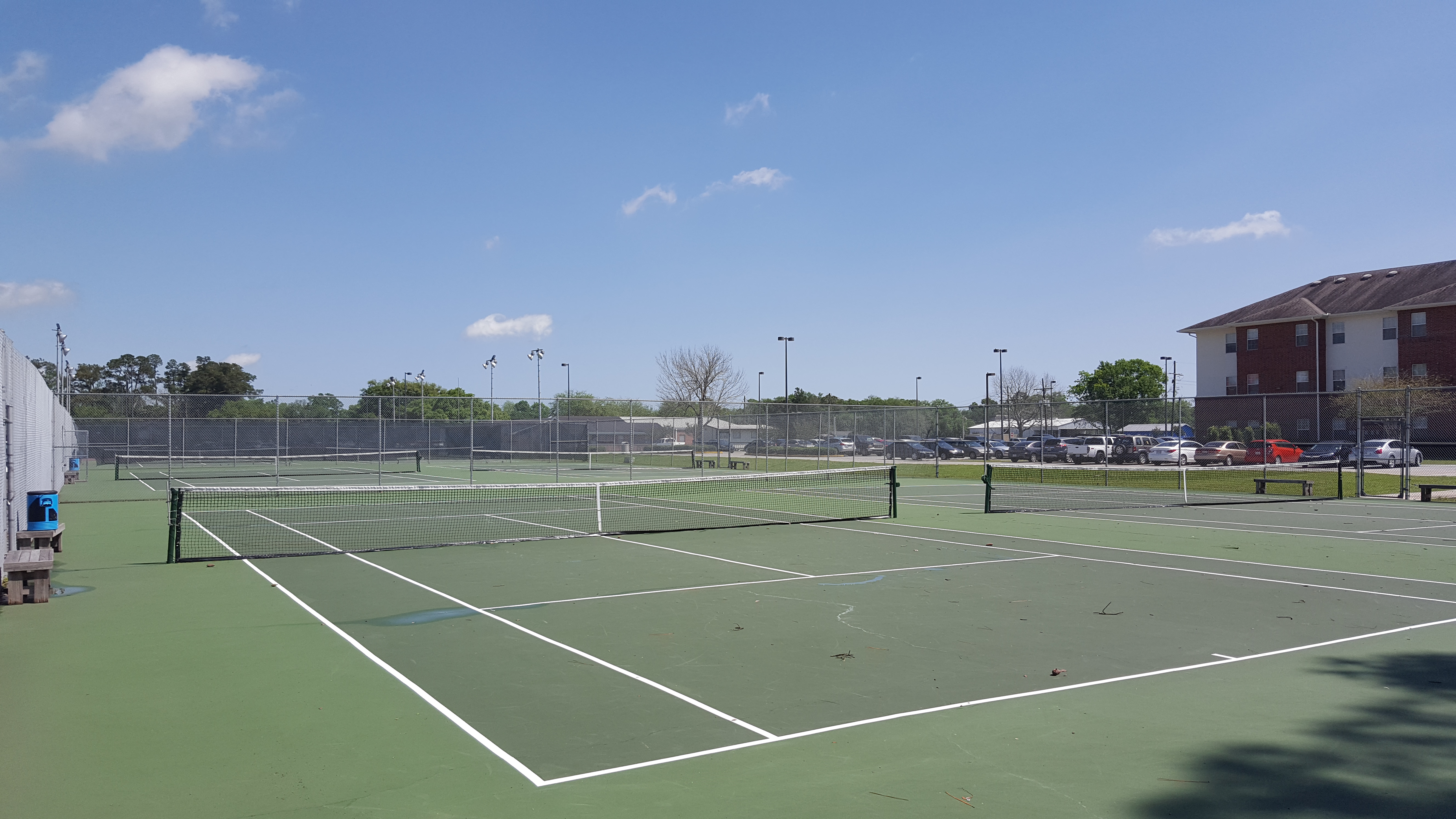 Colonels Tennis Complex (Thibodaux, Louisiana)